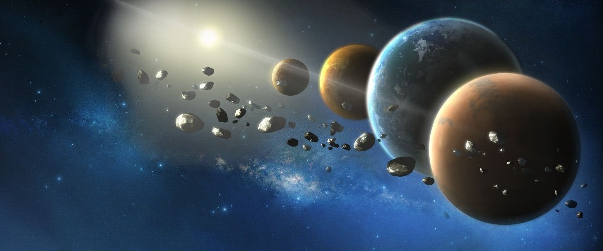 Artwork used on NASA's Discovery program website.